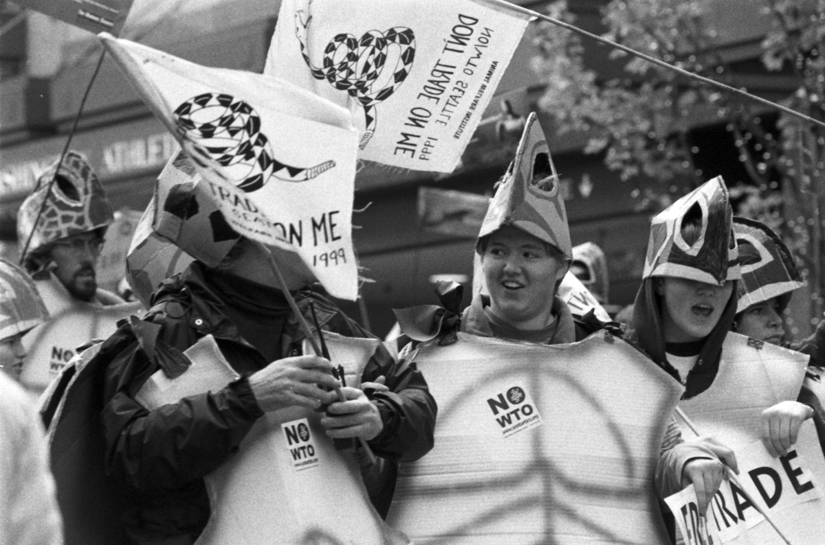 Protests against the 1999 World Trade Organization Ministerial Conference, Seattle, Washington. The "sea turtle" protestors."